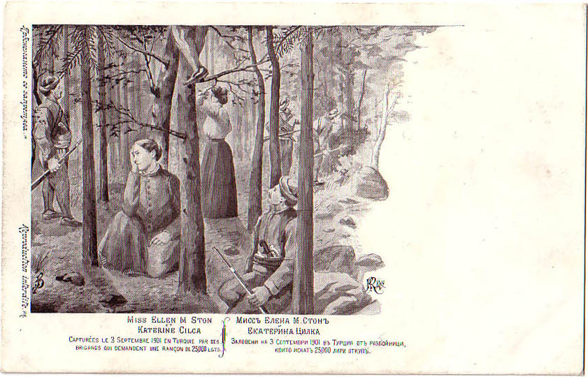 Postacrd showing missioner Miss Helen Stone